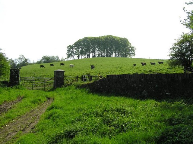 Rath at Favour Royal. It is separated enough from the forest to stand out and is located on top of a hill.